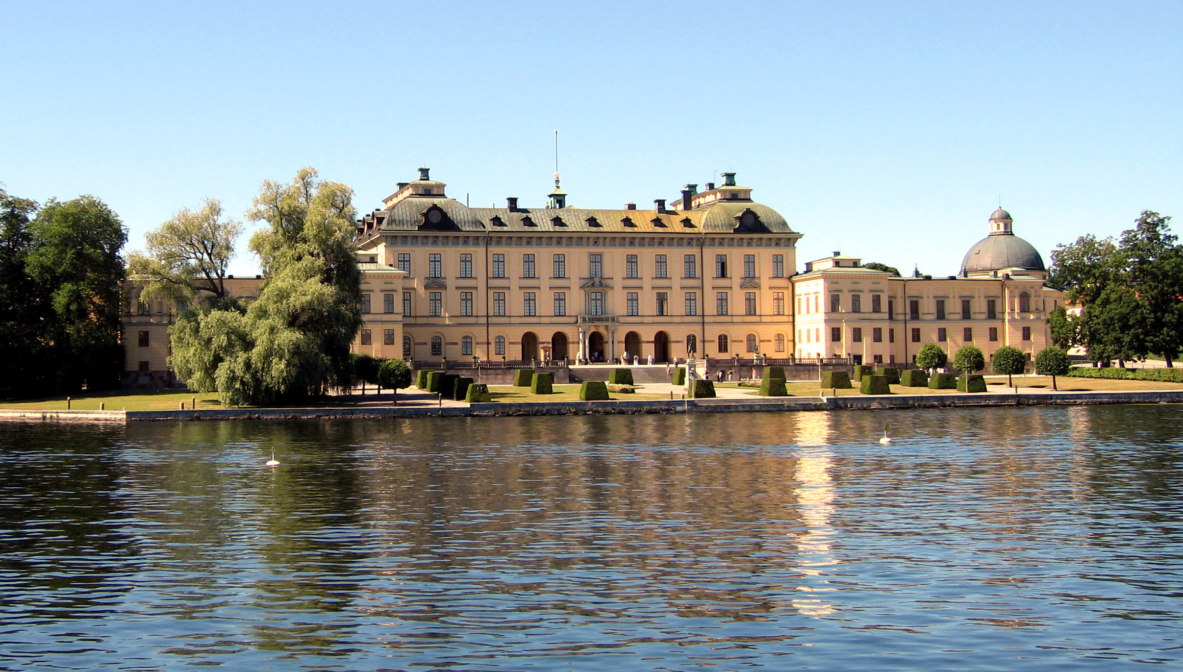 Drottningholm Palace, Stockholm, seen from the Water